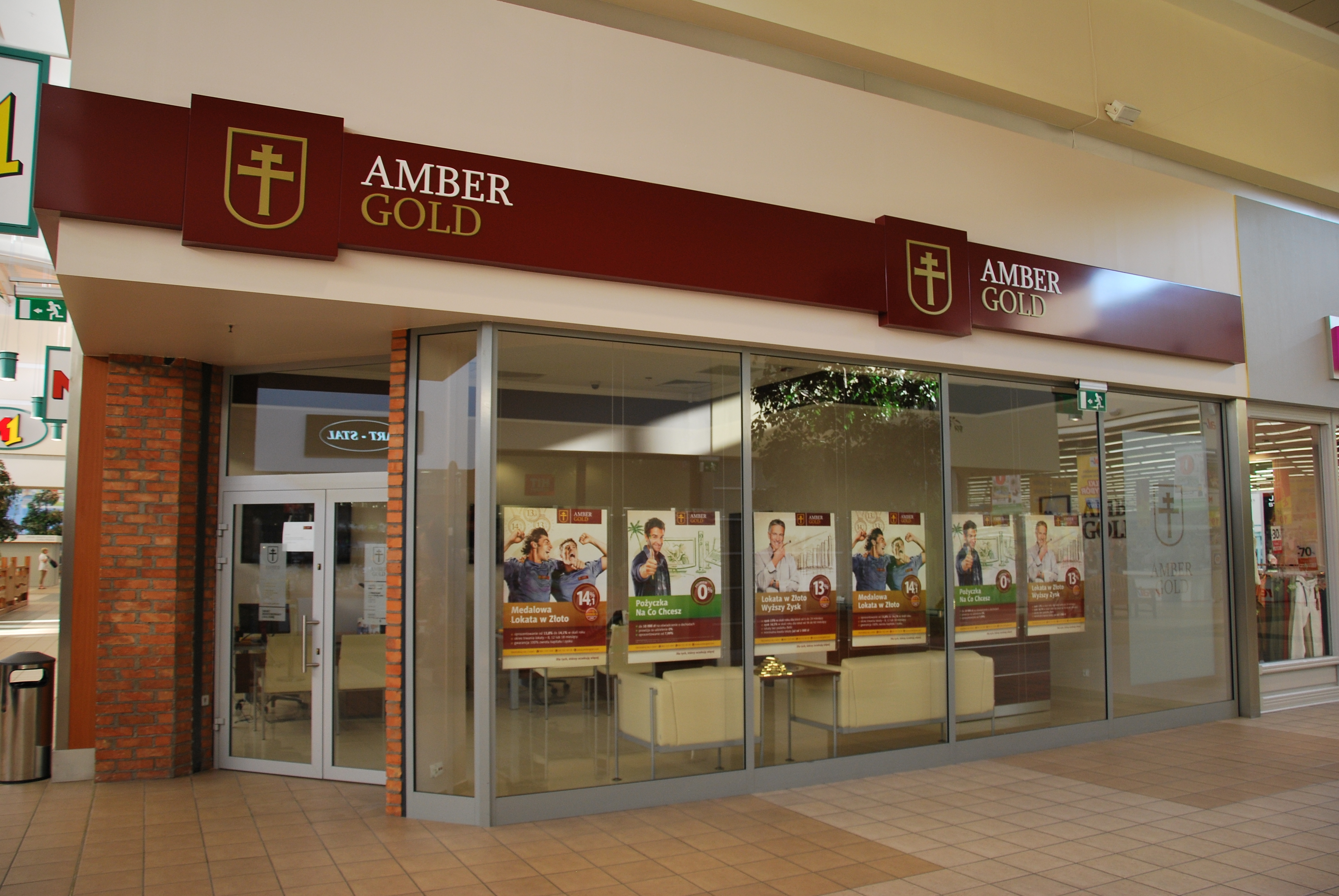 Polish financial company Amber Gold office